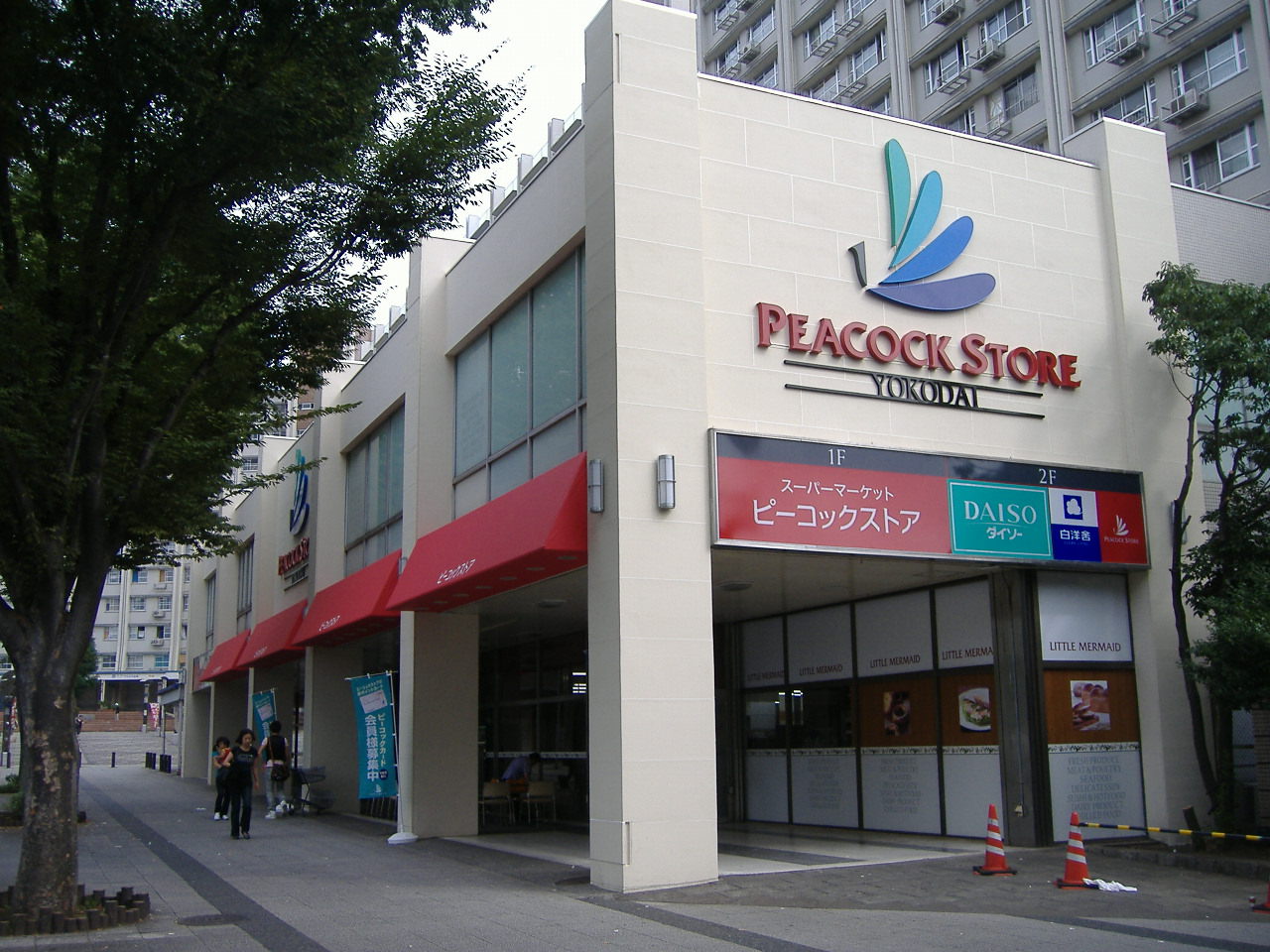 Supermarket "Peacock Store" Yokodai branch (Yokohama, Isogo)